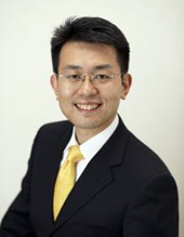 Tetsuji Nakamura was inaugurated as the Parliamentary Secretary of Justice on September, 2009. (For terms of use, see リンク、著作権等について | 首相官邸ホームページ.)